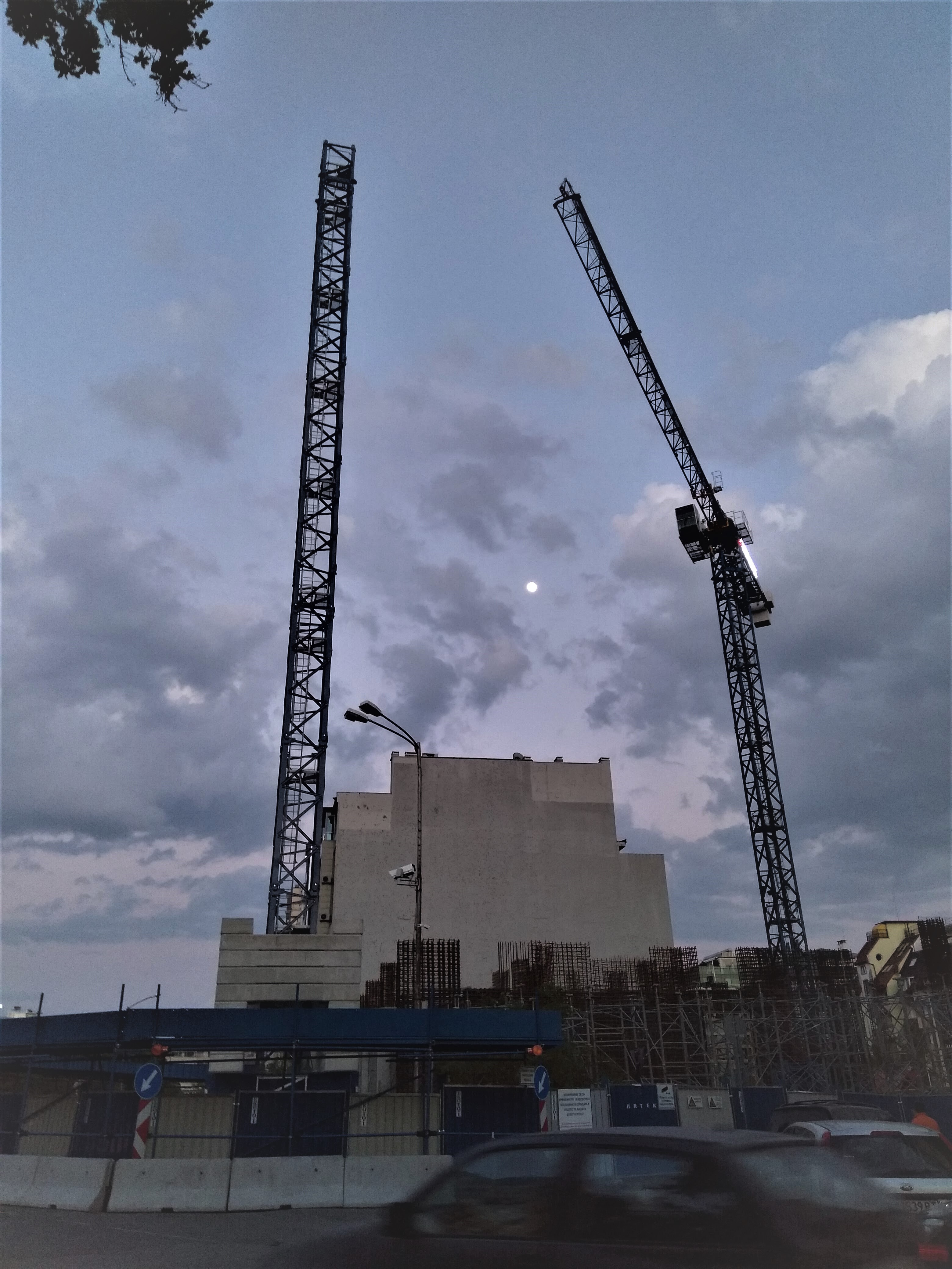 Installation of the second tower block.